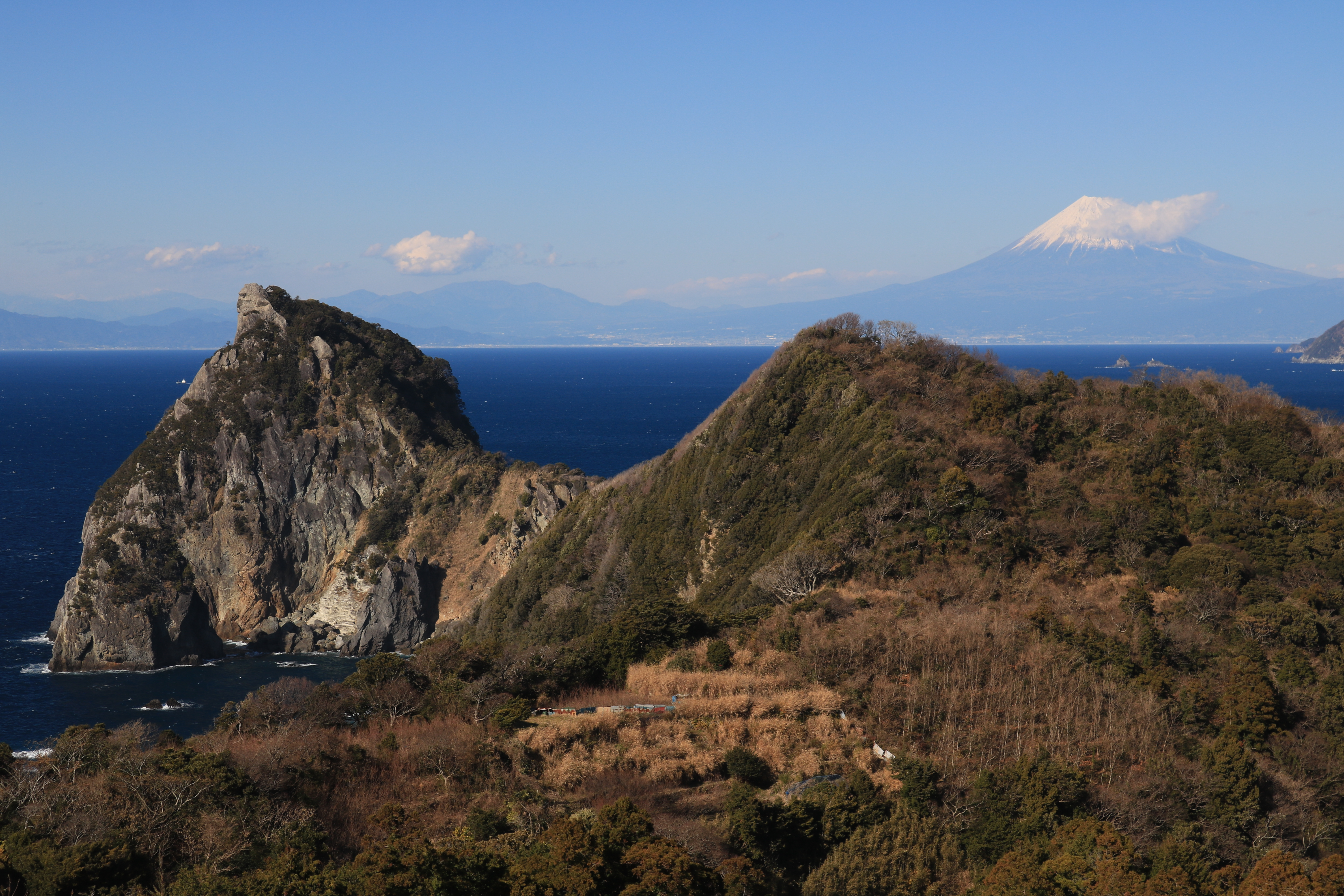 Mount Eboshi (Matsuzaki) and Mount Fuji seen from Mount Takato in Shizuoka Prefecture, Japan.